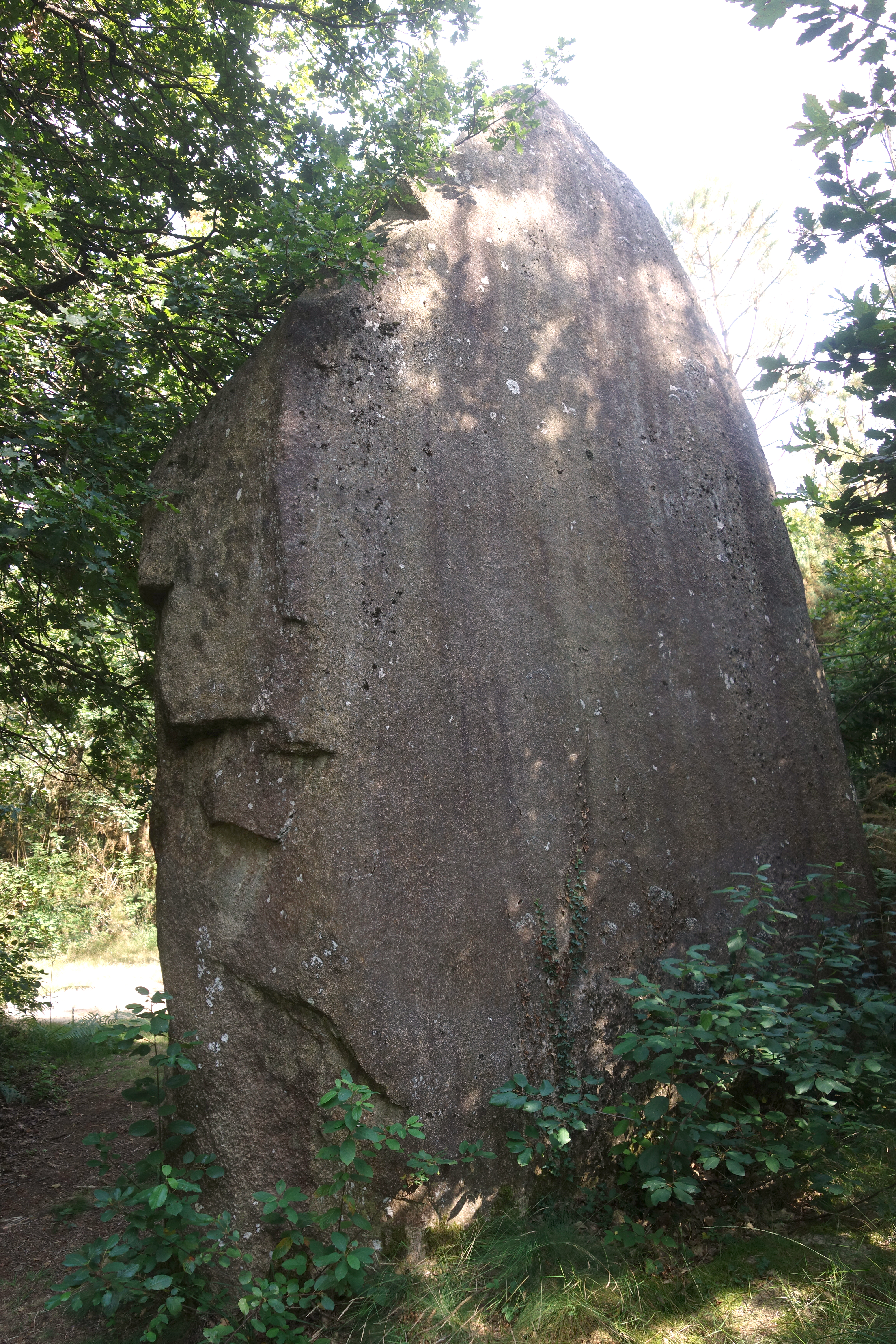 The « Menhir de Ranion » in Bois de l'Enclos near Pleucadeuc in August 2018